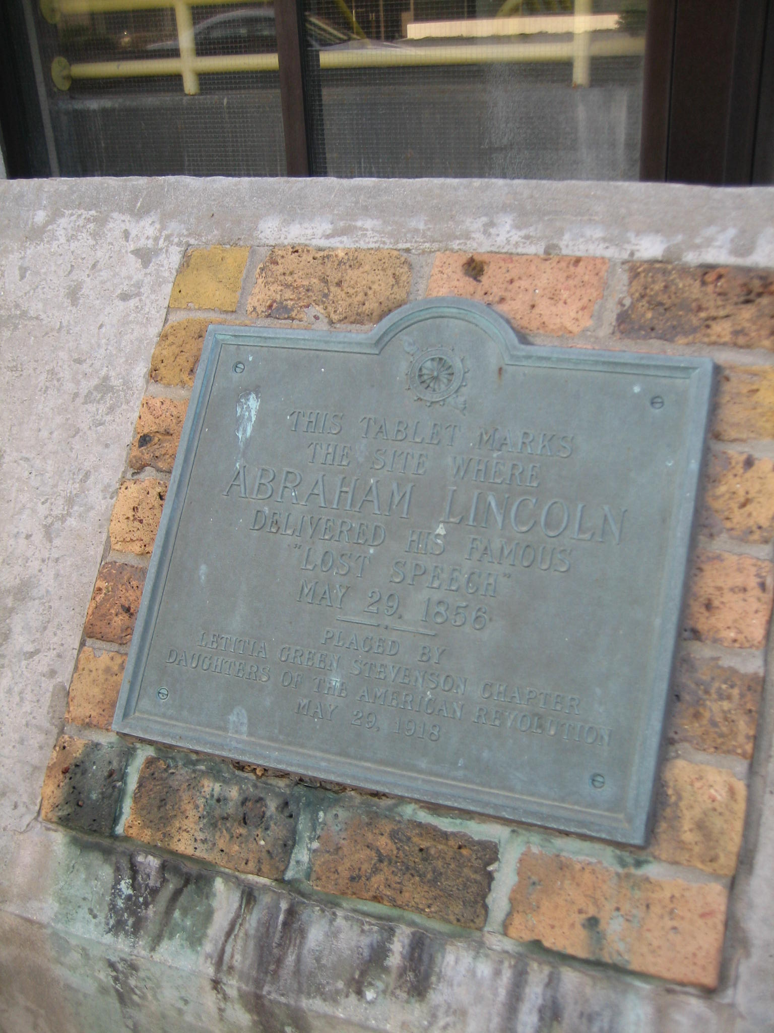 Tablet marking the site of Abraham Lincoln's "Lost Speech" in Bloomington, Illinois, USA. Text reads: This tablet marks the site where Abraham Lincoln delivered his famous "Lost Speech" May 29, 1856 Placed by Leticia Green Stevenson Chapter Daughters of the American Revolution May 29, 1918 This plaque marks the site of the Lost Speech.